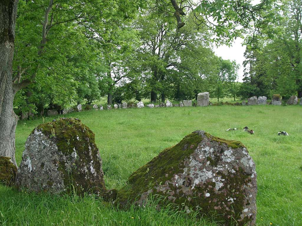 Grange stone circlein Ireland. Shot 2002-06-15 with a Canon D60 pdphoto